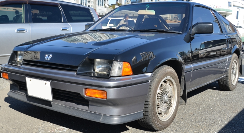 Honda Ballade Sports CR-X Si